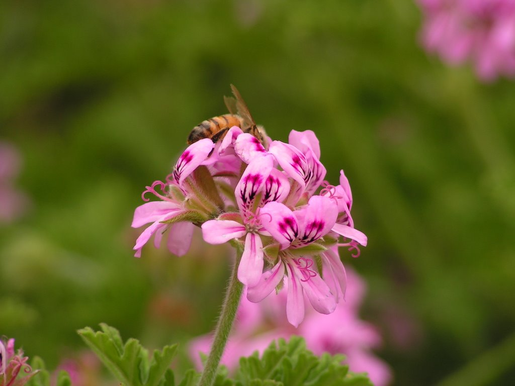 A bee on Pelargonium graveolens flour cluster